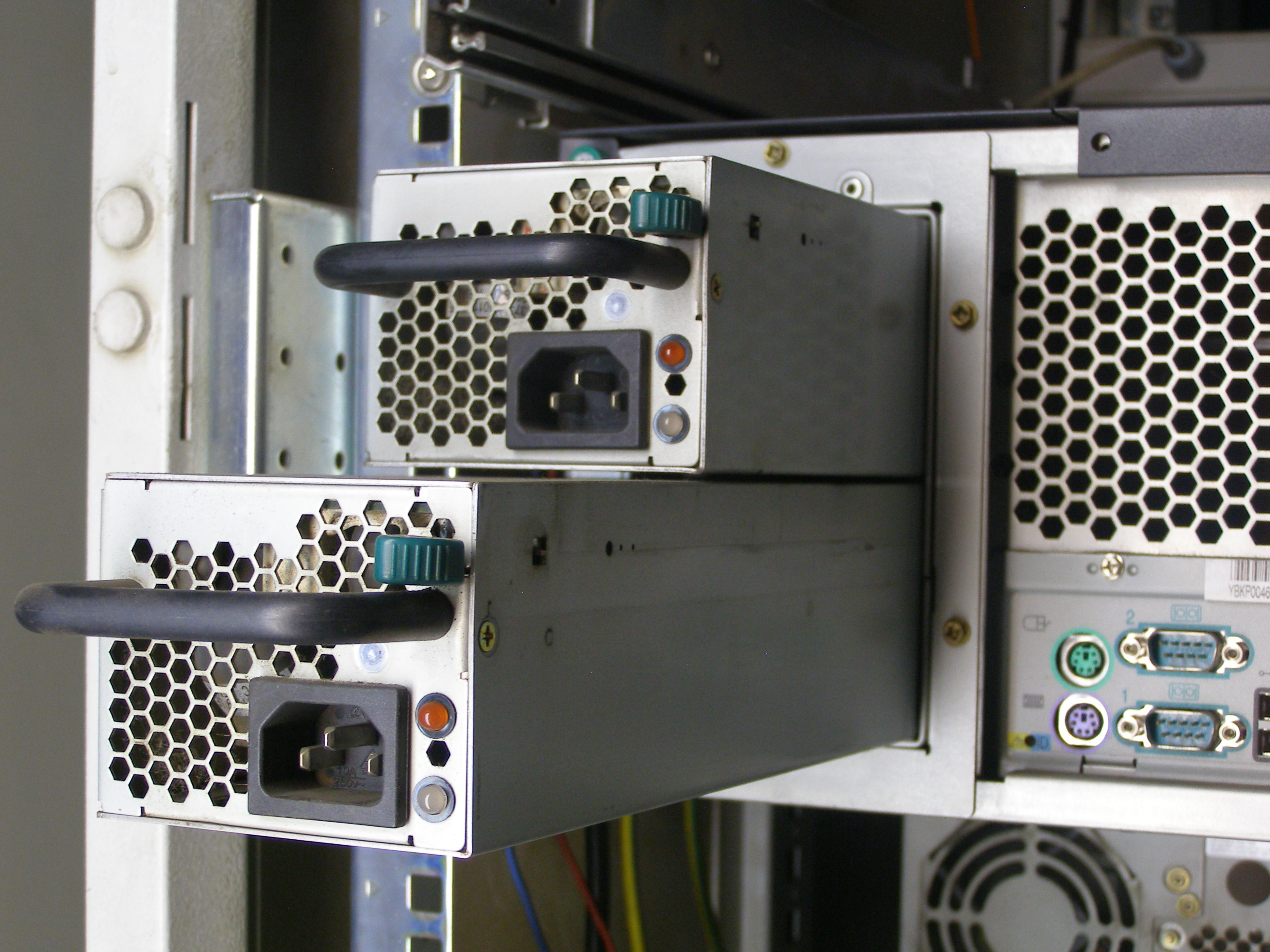 FSC Primergy TX200